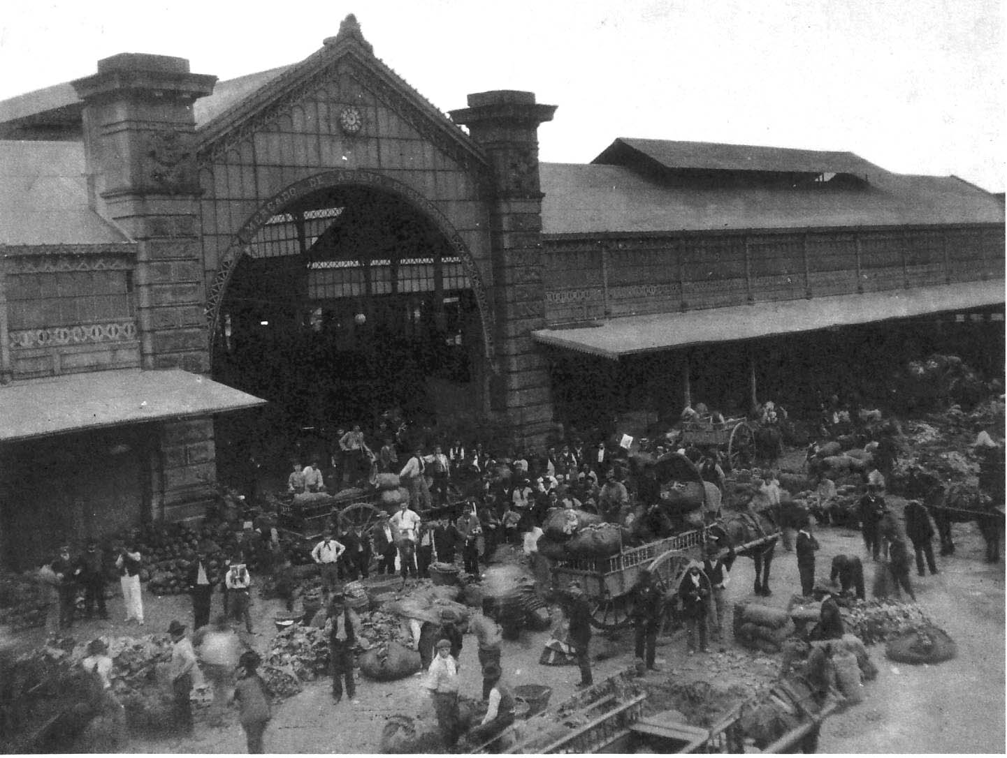 The Mercado de Abasto of Buenos Aires. The building was the central wholesale fruit and vegetable market in the city from 1893 to 1984.